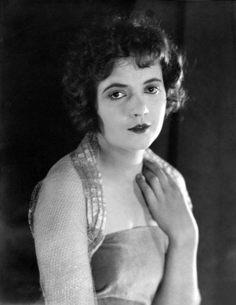 Portrait of American actress Lois Wilson (1894–1988) by Edwin Bower Hesser (1893–1962).